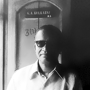 A picture of GA clicked by Subhash Awchat